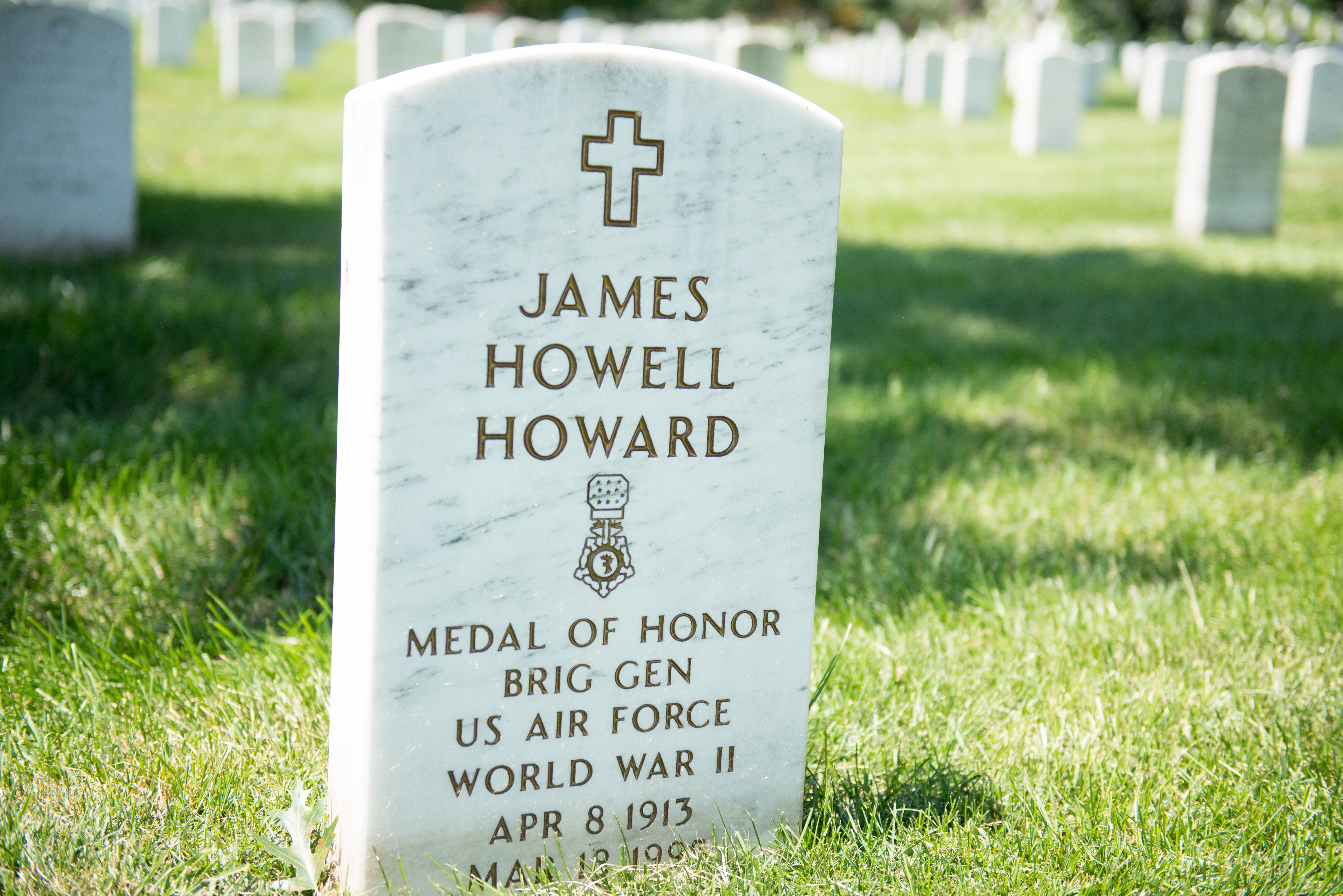 U.S. Air Force Brig. Gen. James Howell Howard, born April 8, 1913 and died March 18, 1995, is buried in section 34, grave 2571 of Arlington National Cemetery. Howard was a Medal of Honor recipient. (U.S. Army photo by Rachel Larue/released)